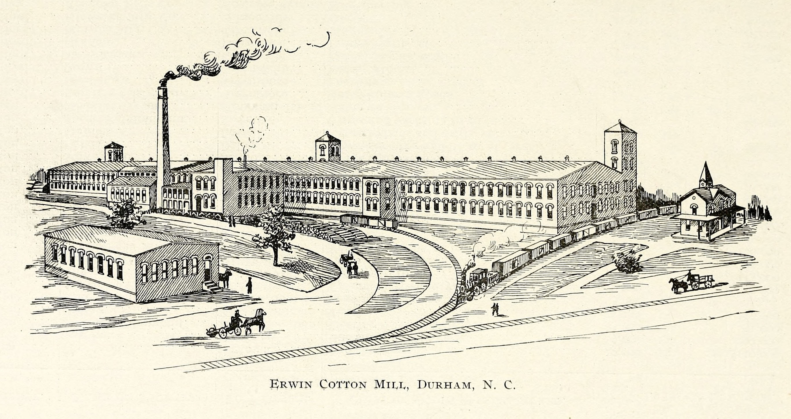 "Erwin Cotton Mills, Durham, N.C.," by an unknown illustrator, accompanying the 1897 Annual report of the Bureau of Labor Statistics of the State of North Carolina, page 33. Illustration courtesy of the Government & Heritage Library, State Library of North Carolina.